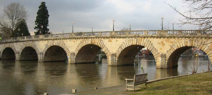 Maidenhead Bridge over the River Thames looking north. Photograph taken by Gavin Bashford 2006